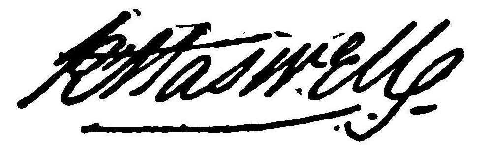 signature of Robert Haswell